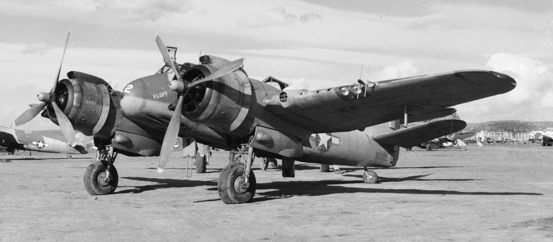 Beaufighter Mk.VIf of the 416th Night Fighter Squadron at Grottaglie Airfield, Italy, in November 1943. (U.S. Air Force photo)